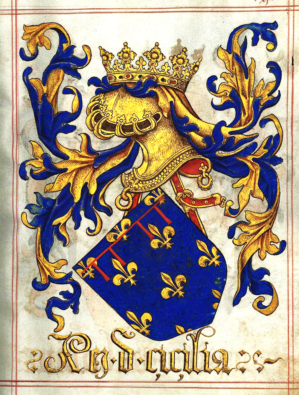 King of Sicily